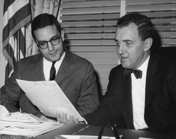 George Mitchell in service to Edmund Muskie as an editorial assistant, 1960